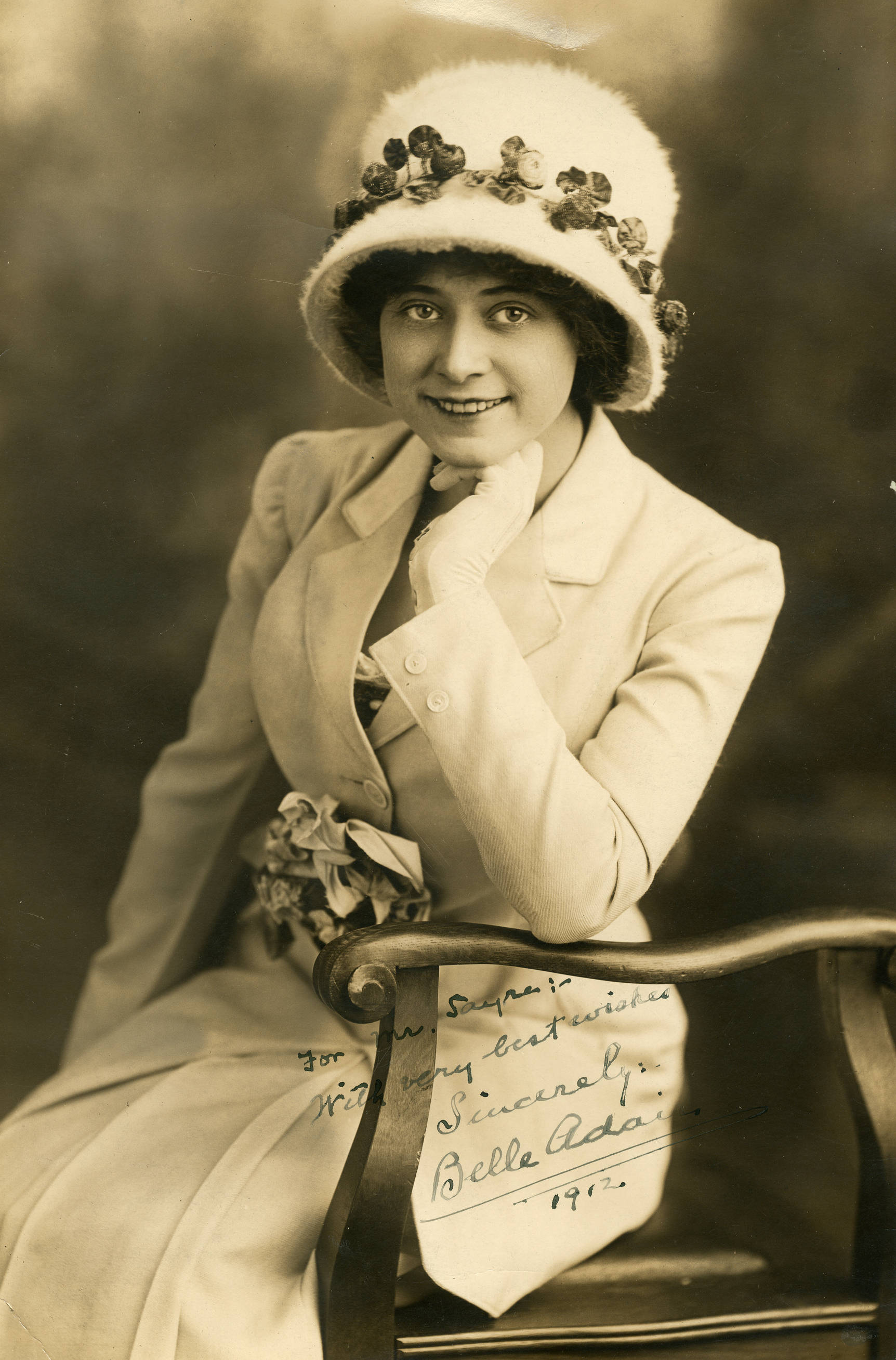 Vaudeville actress Belle Adair. Subjects: actresses